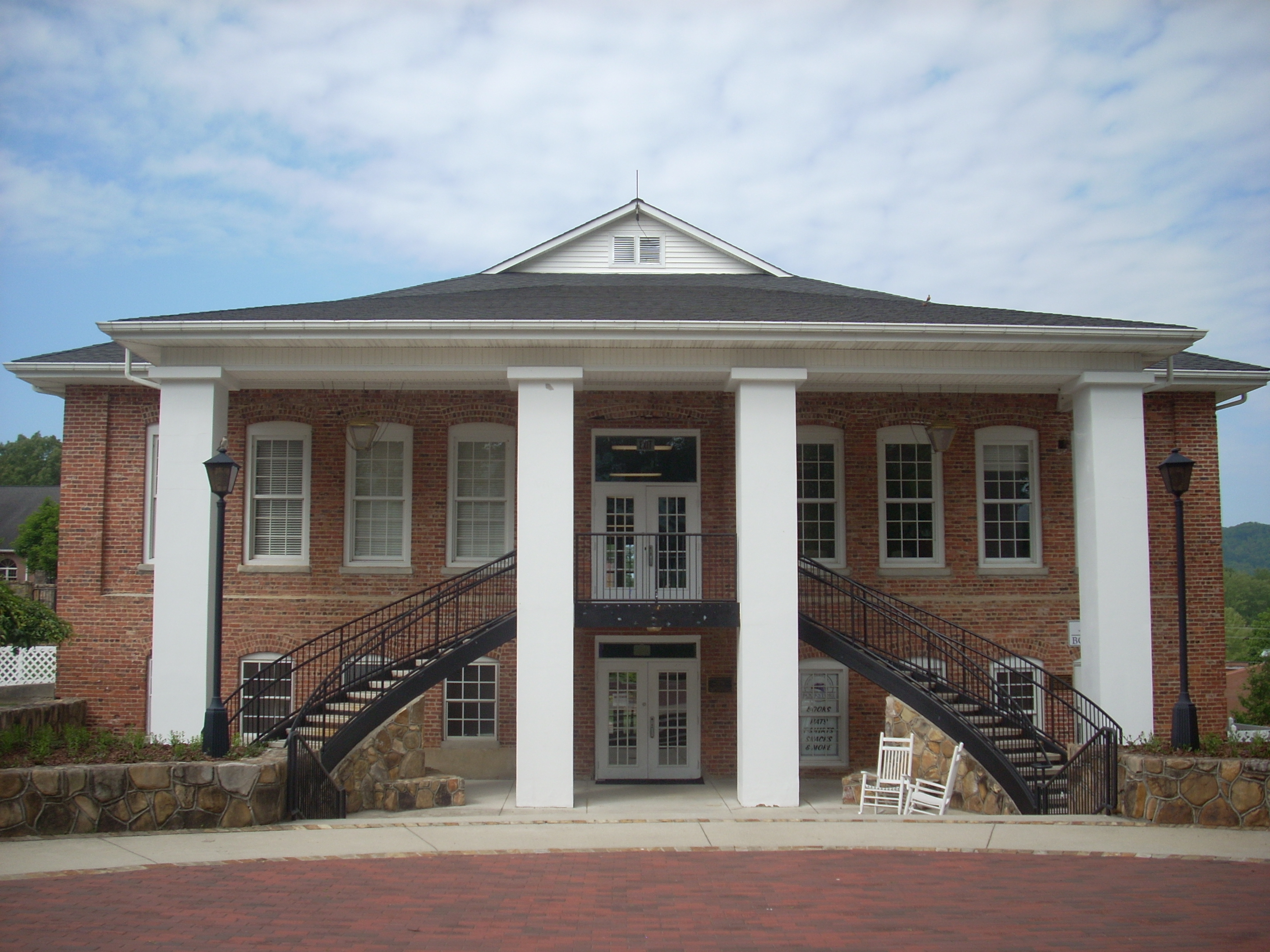 Sharp Hall, Young Harris College, Young Harris (Towns County, Georgia) Built in 1912. Includes: Myers Student Center, YHC Bookstore, Human Resources Office, and Office of the President. This work has been released into the public domain by its author, KudzuVine. This applies worldwide. In some countries this may not be legally possible; if so: KudzuVine grants anyone the right to use this work for any purpose, without any conditions, unless such conditions are required by law.